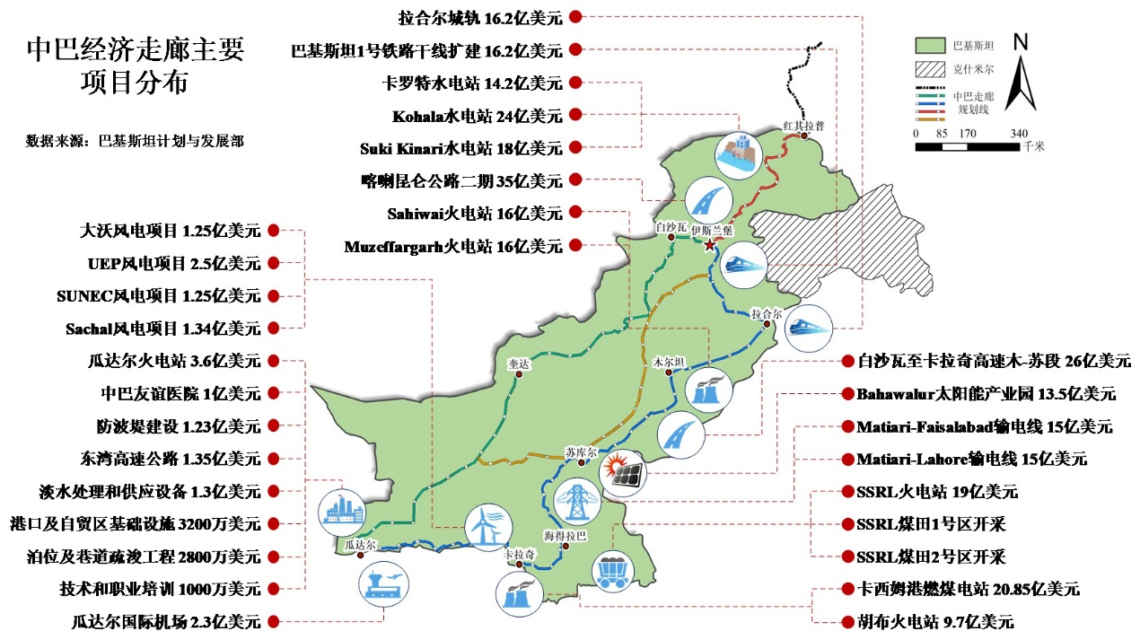 Fig 1 of